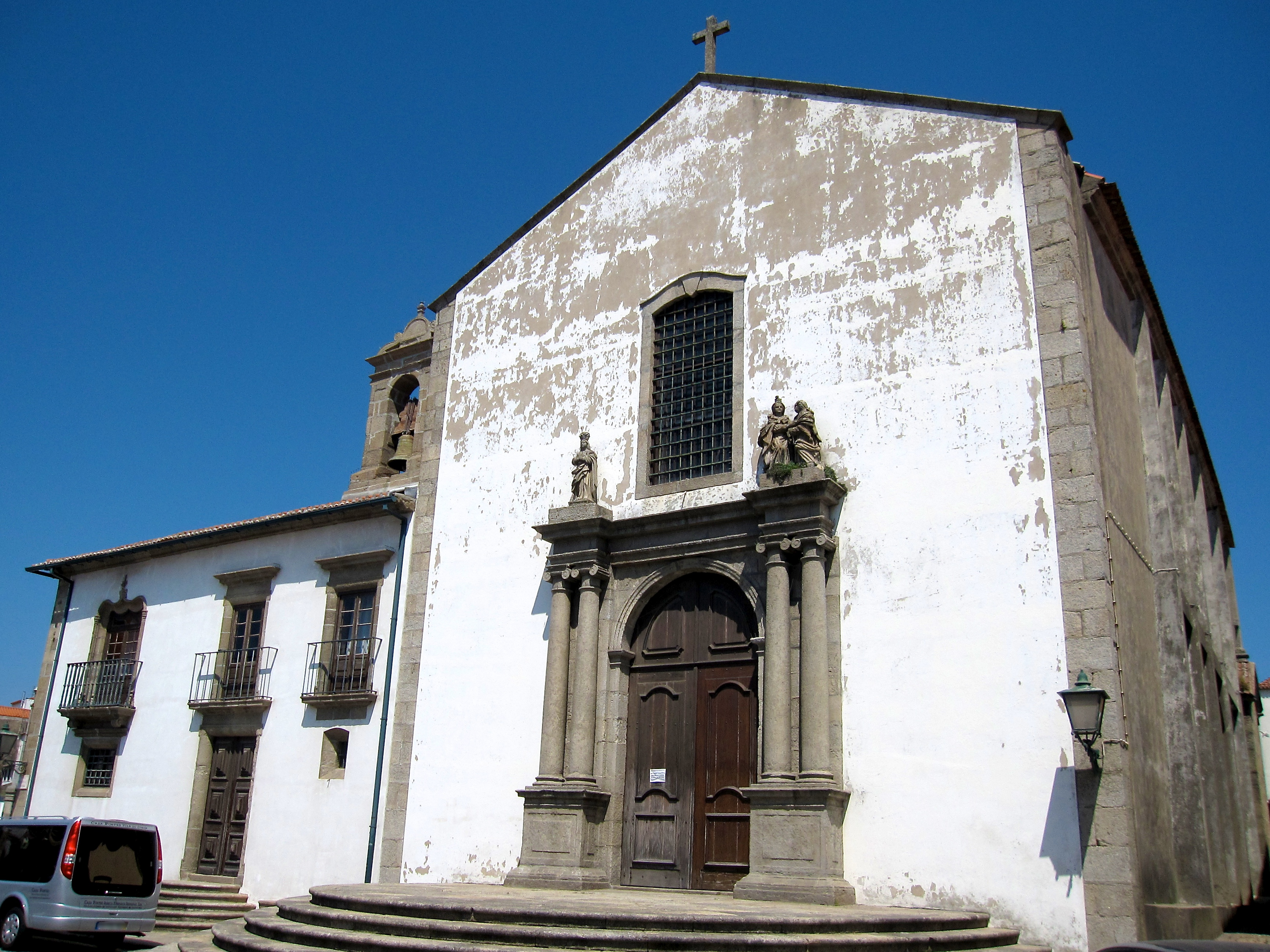 This file was uploaded for Wiki Loves Monuments in Portugal with the unique identifier 74463.